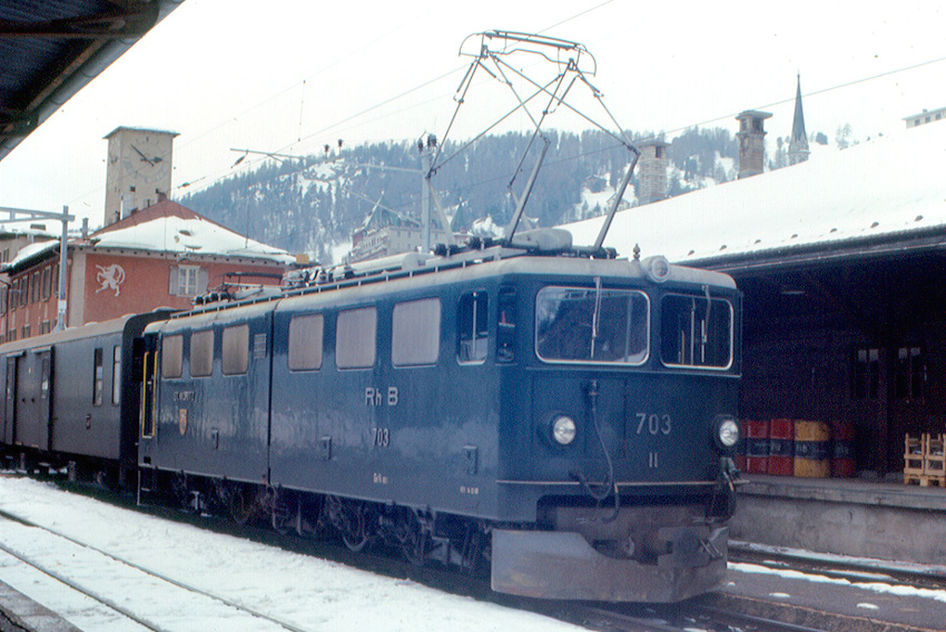 RhB Ge6/6 II No. 703 in St. Moritz station.